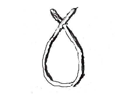 own drawing, thing made of wood to fasten to a rope, when carrying hay on ones back